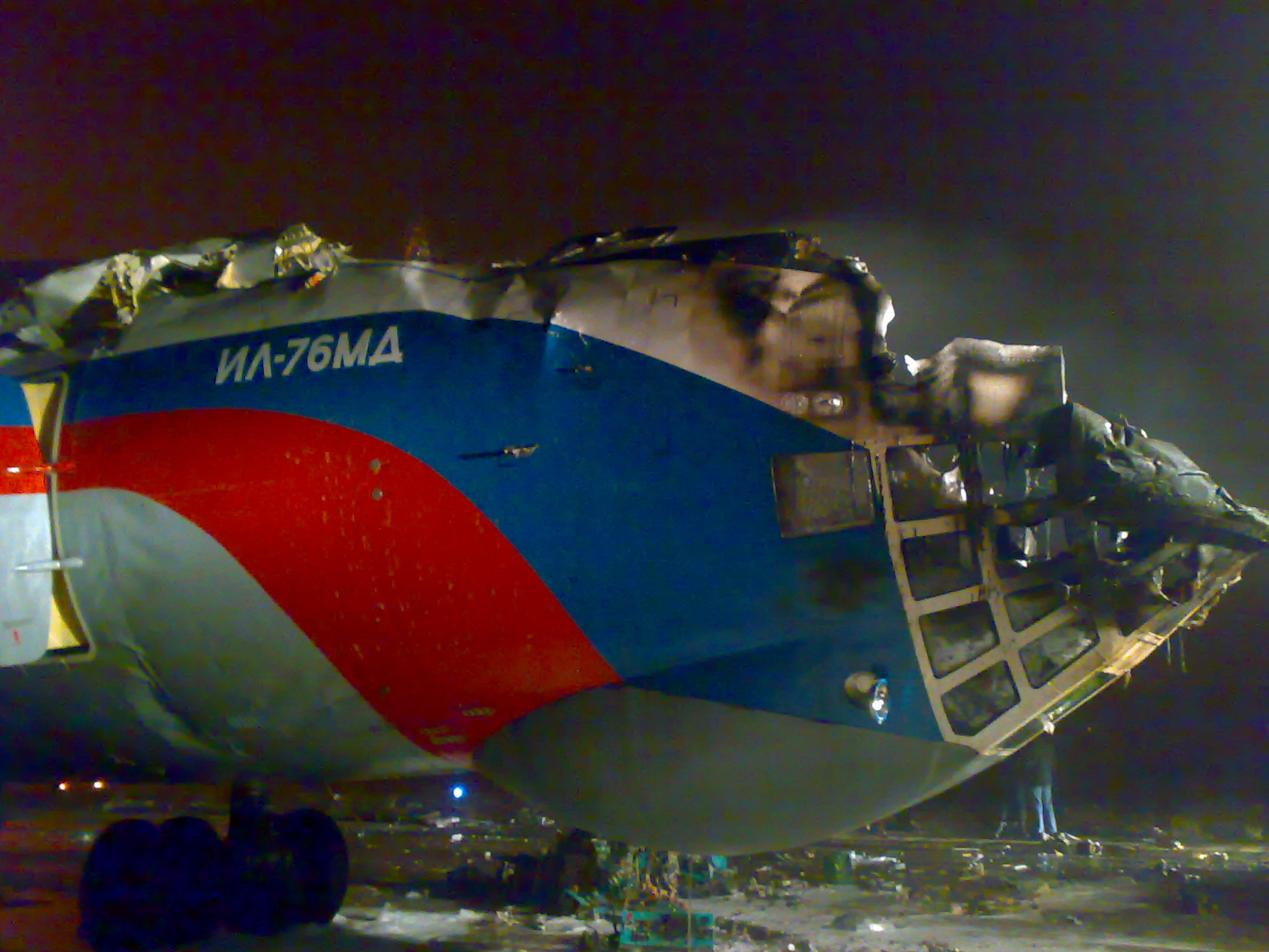 Collision of two Il-76 aircrafts in Makhachkala.